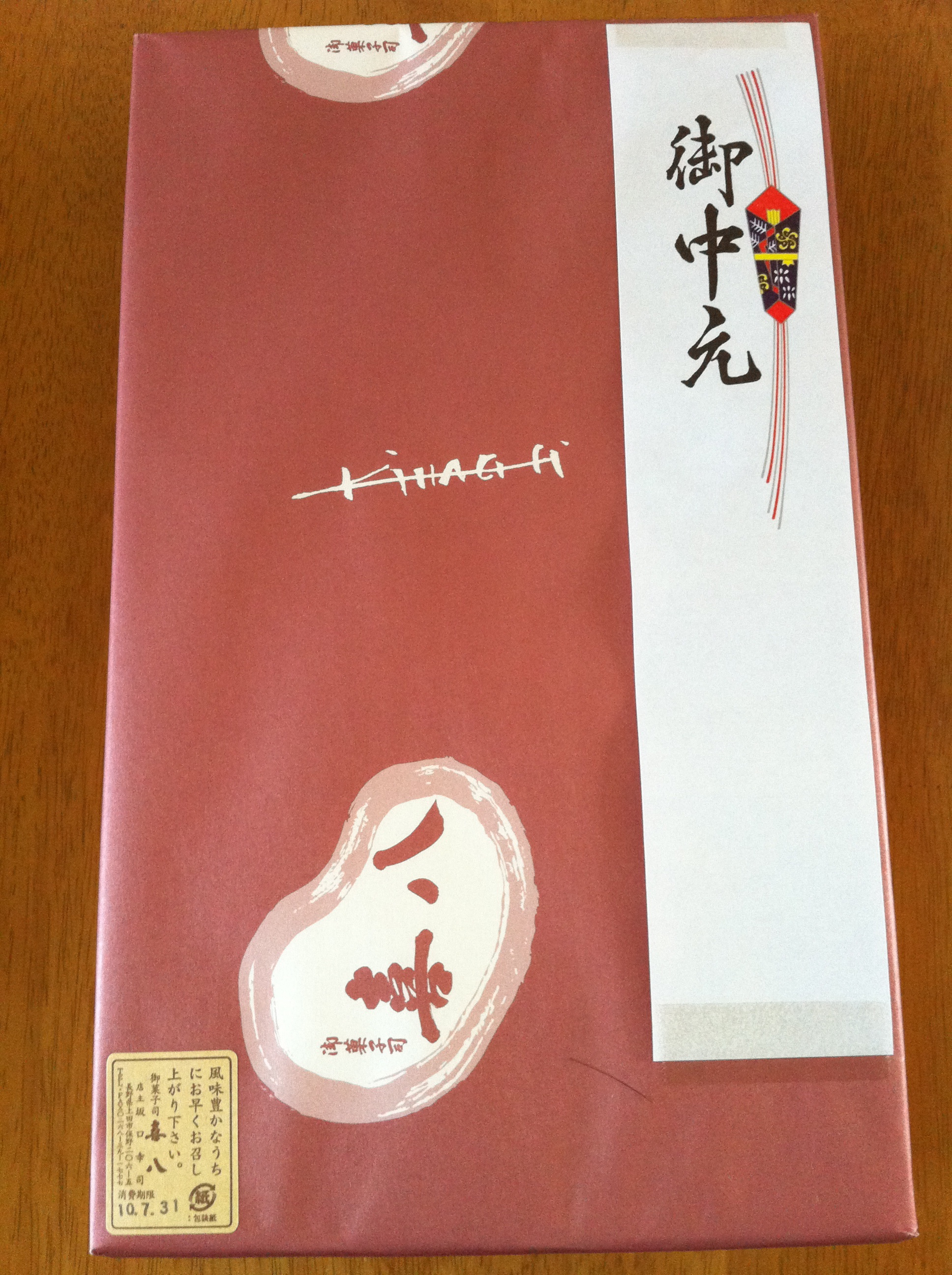 Ochūgen (Mid-year gift) in Japan